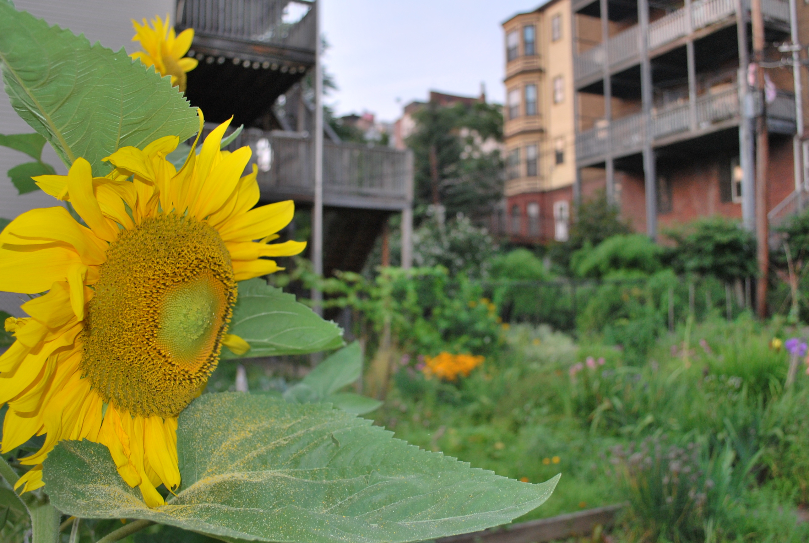 Sunflower blooming in Eagle Hill Memorial Community Garden in East Boston on Border Street. Background shows backs of Meridian Street multi-unit houses.